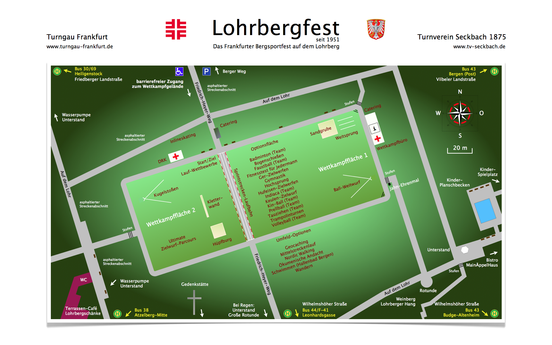 Since 1951 Lohrbergfest is an athletics open air event which takes place on the hill Lohrberg in Frankfurt, Hesse, Germany